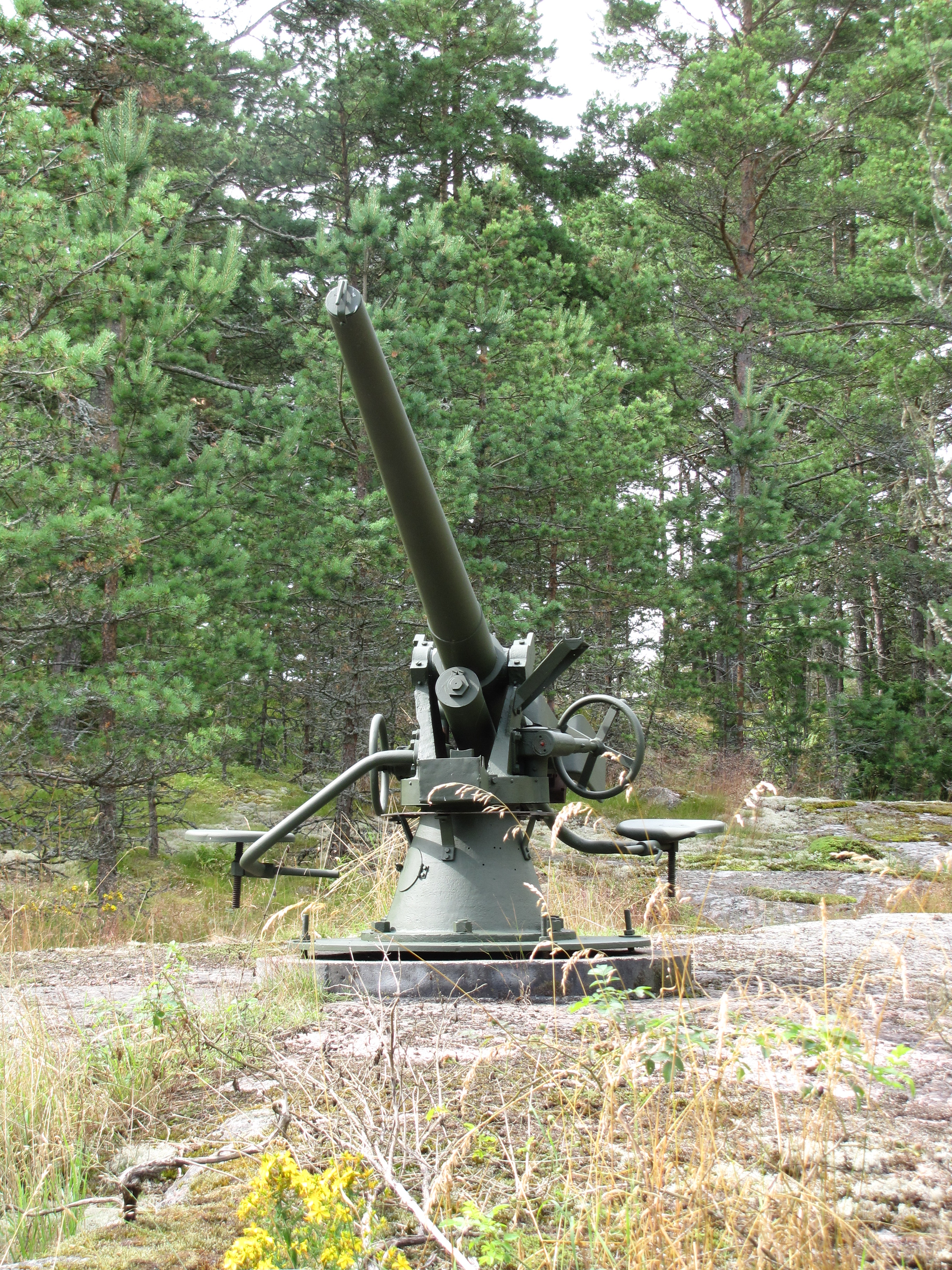 57 55 J or 57 mm 55 caliber length model Jokinen coastal gun in Kuivasaari island.